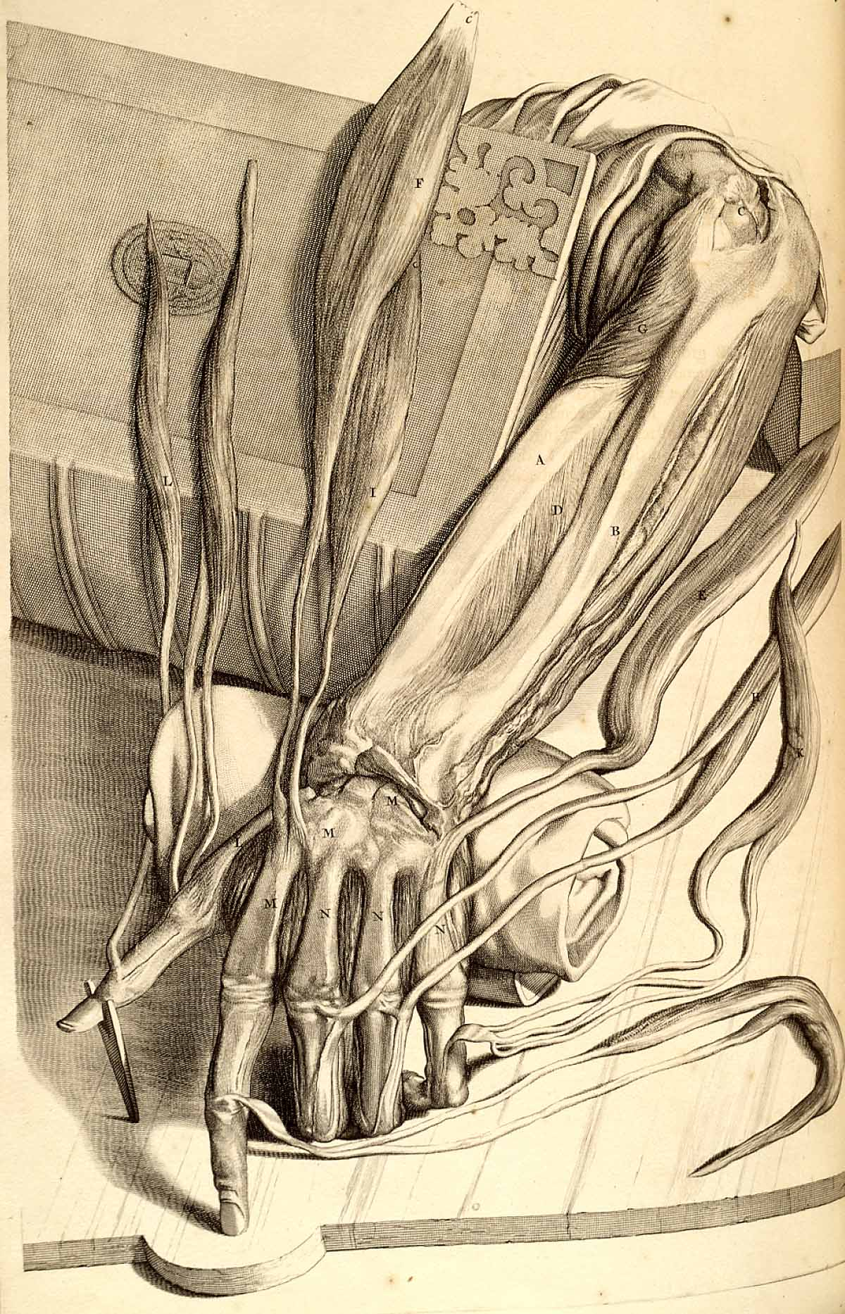 Anatomy of the human hand